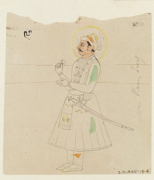 Drawing, ink with watercolour on paper, Raja Ram Singh of Jaipur (1668-1690, Son of Jai Singh I) standing facing to the left, holding a rose in his right hand, with a long tulwar (sword) at his hip.